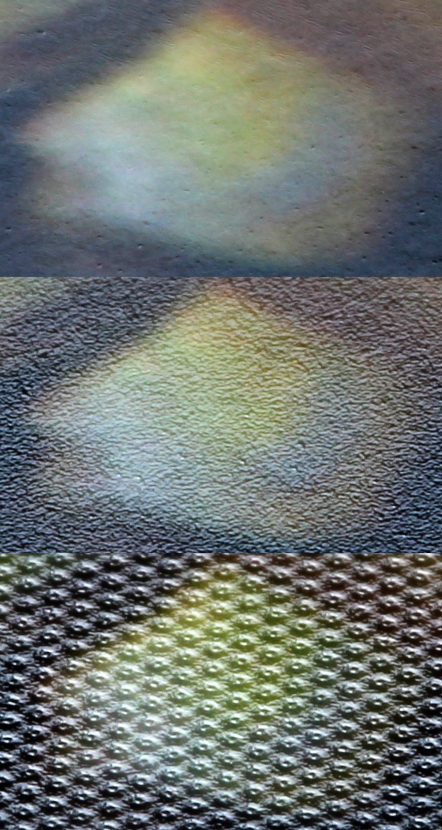 Surface of glossy, matt and silk photo papers.